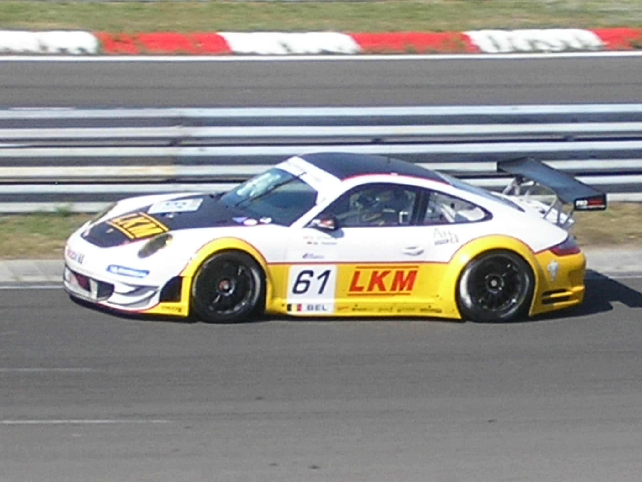 Marco Holzer driving Prospeed Porsche 997 GT3 RSR at 2009 FIA GT Budapest City